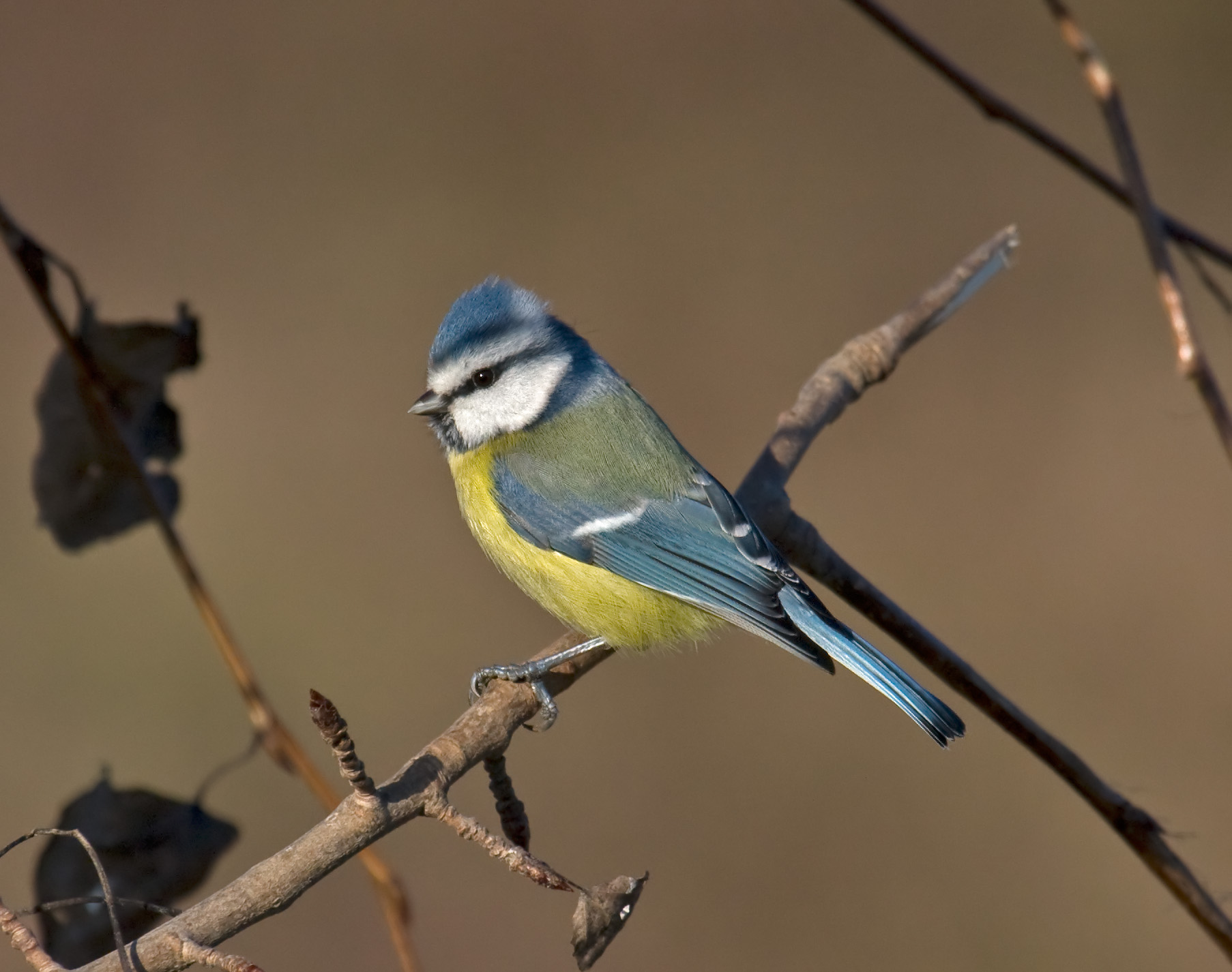 Blue Tit